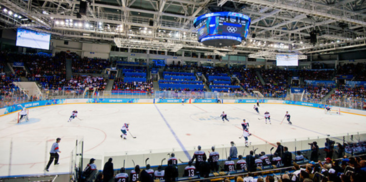 Slovakia vs USA hockey game at Sochi 2014 Winter Olympics